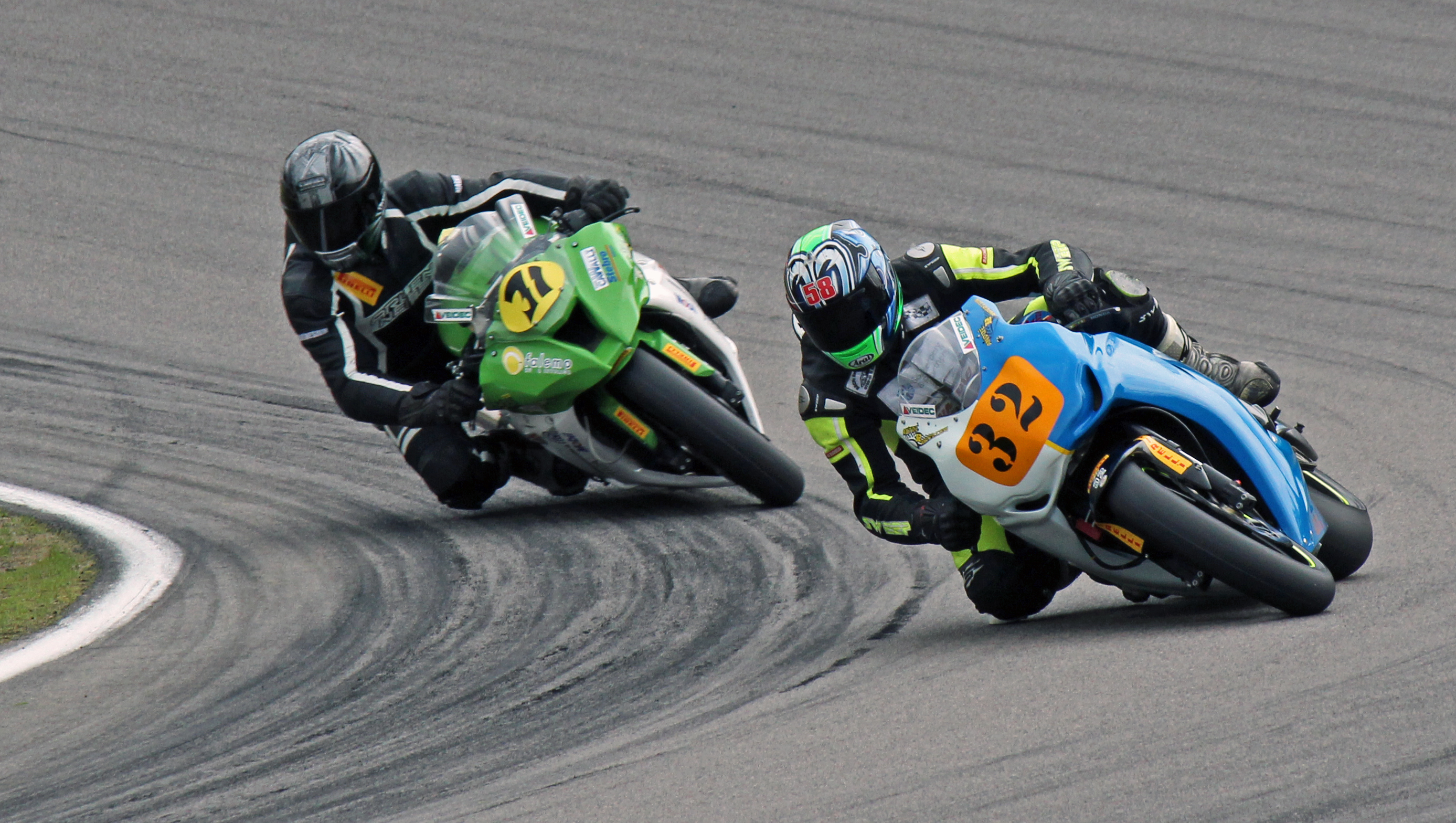 André Andersson (right) and Daniel Falemo (left) in Pro Superbike at Ring Knutstorp in 2012.